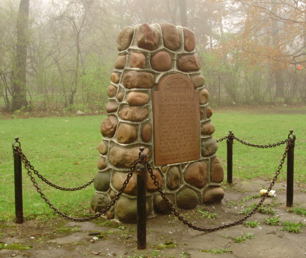 This historical marker, placed by the Don Valley Conservation Authority in 1954, marks the approximate site of John Graves Simcoe's residence at Castle Frank in modern Toronto, Ontario. It is located across Bloor Street from Castle Frank Station.